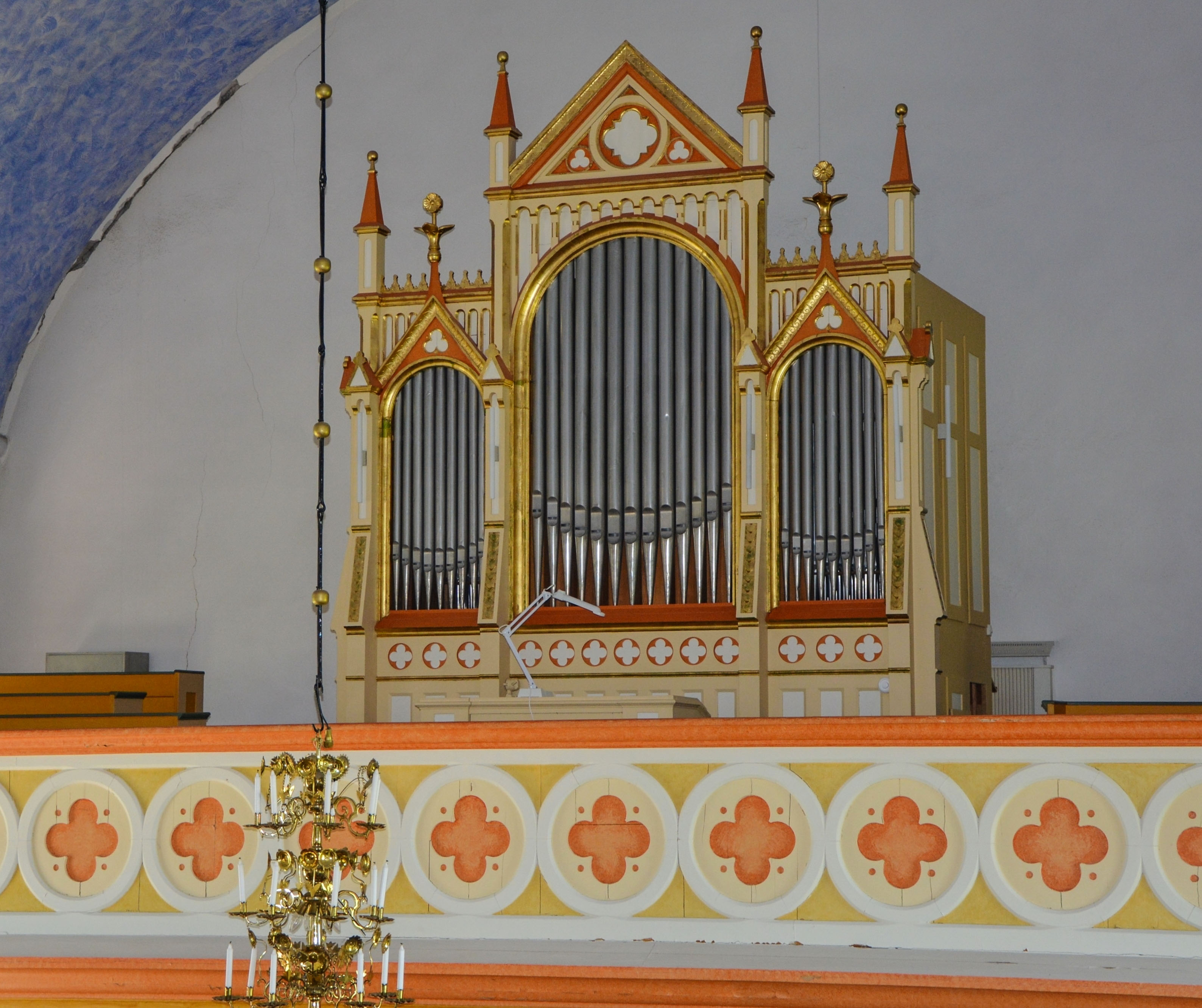 Gräsgård Church.The organ